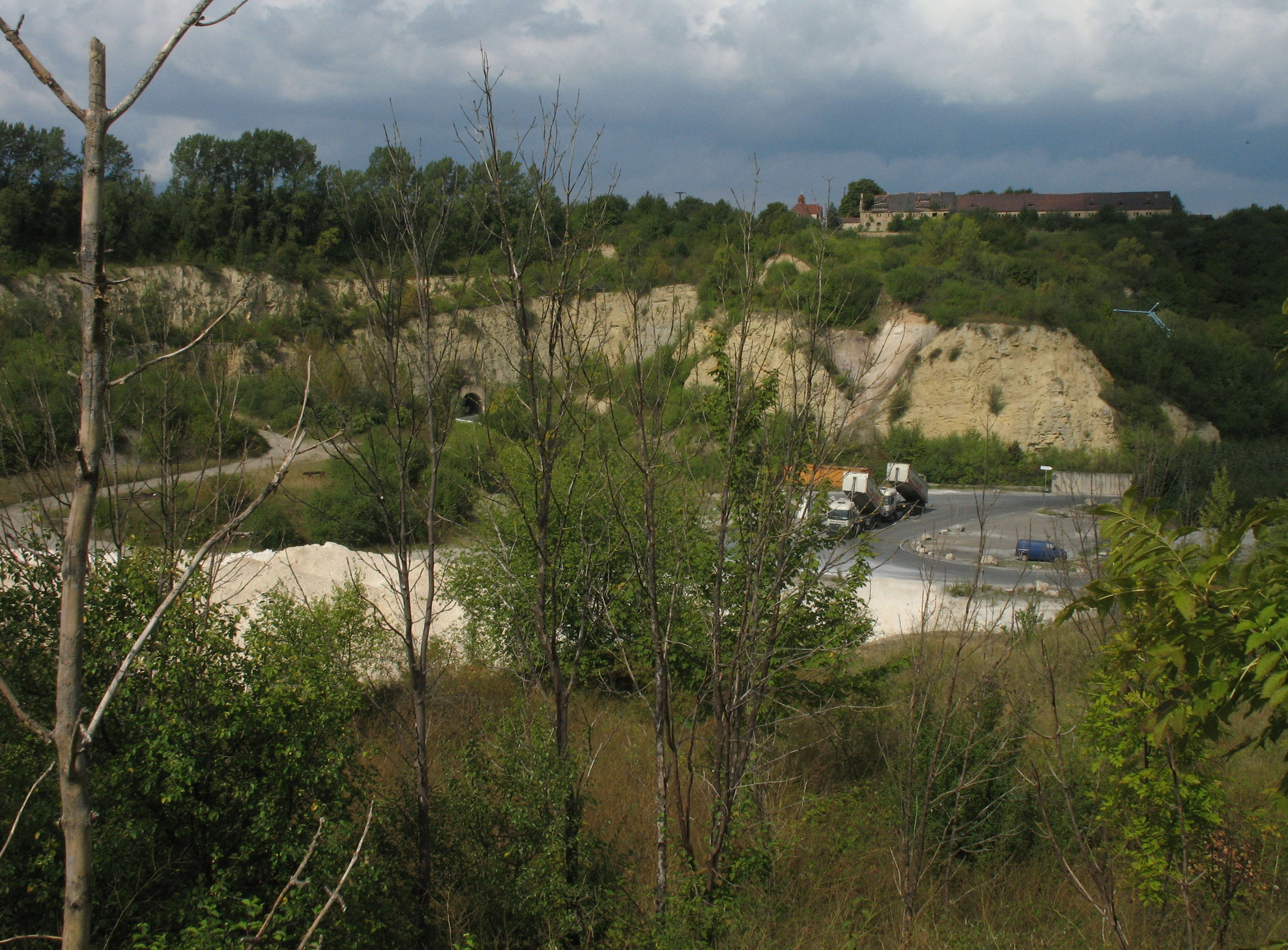 Limestone quarry in Schraplau in Saxony-Anhalt, Germany